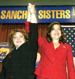 Sister congresswomen Loretta and Linda Sanchez.